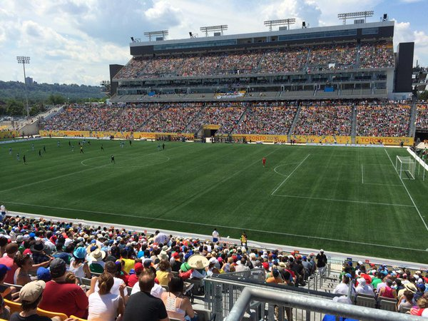 The football (soccer) venue of the 2015 Pan American Games in Toronto, Canada.